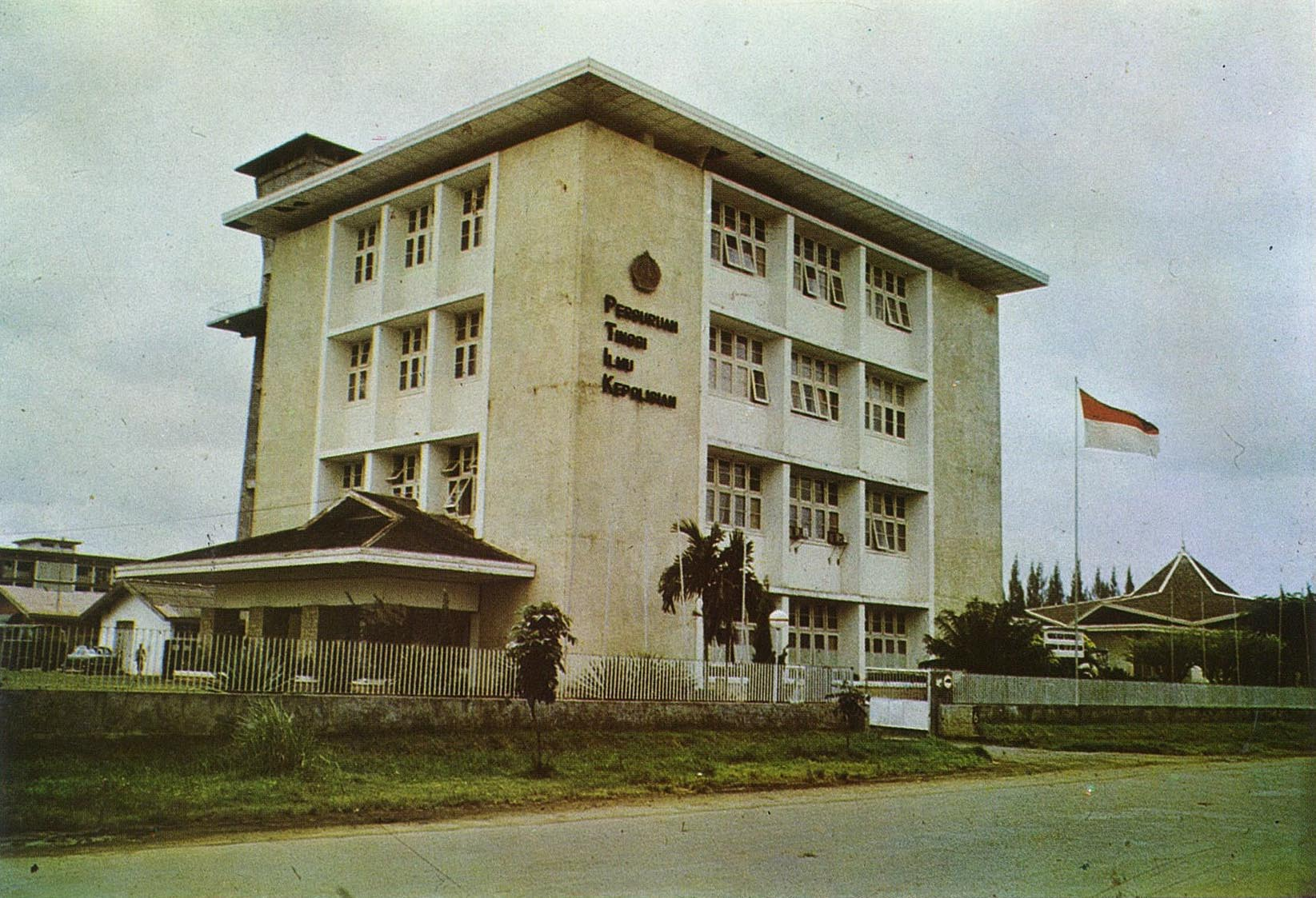 Indonesian school of higher police education